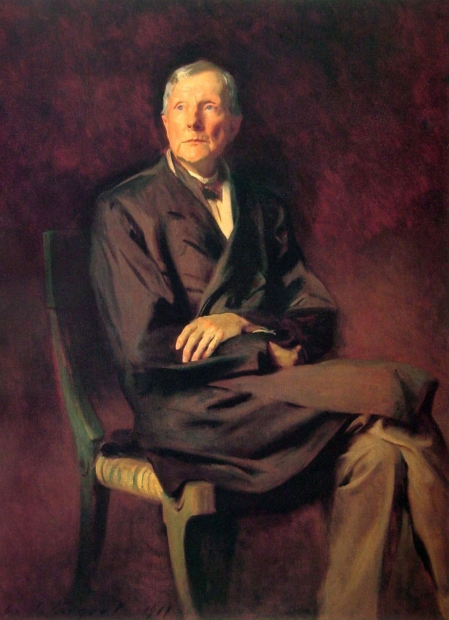 painted in 1917 at Rockefeller's winter home in Ormond Beach, Florida.